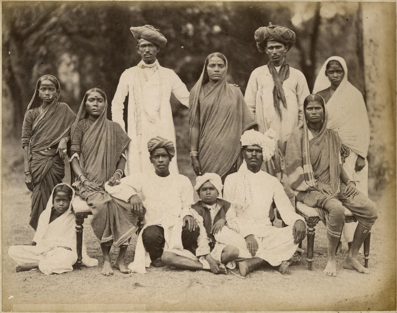 Family Photograph of a Marahatta Family from Bombay (Mumbai) by the Taurines Studio - 1880's